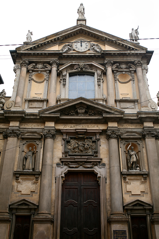 facade of Santa Maria alla Porta, Milan, Italy